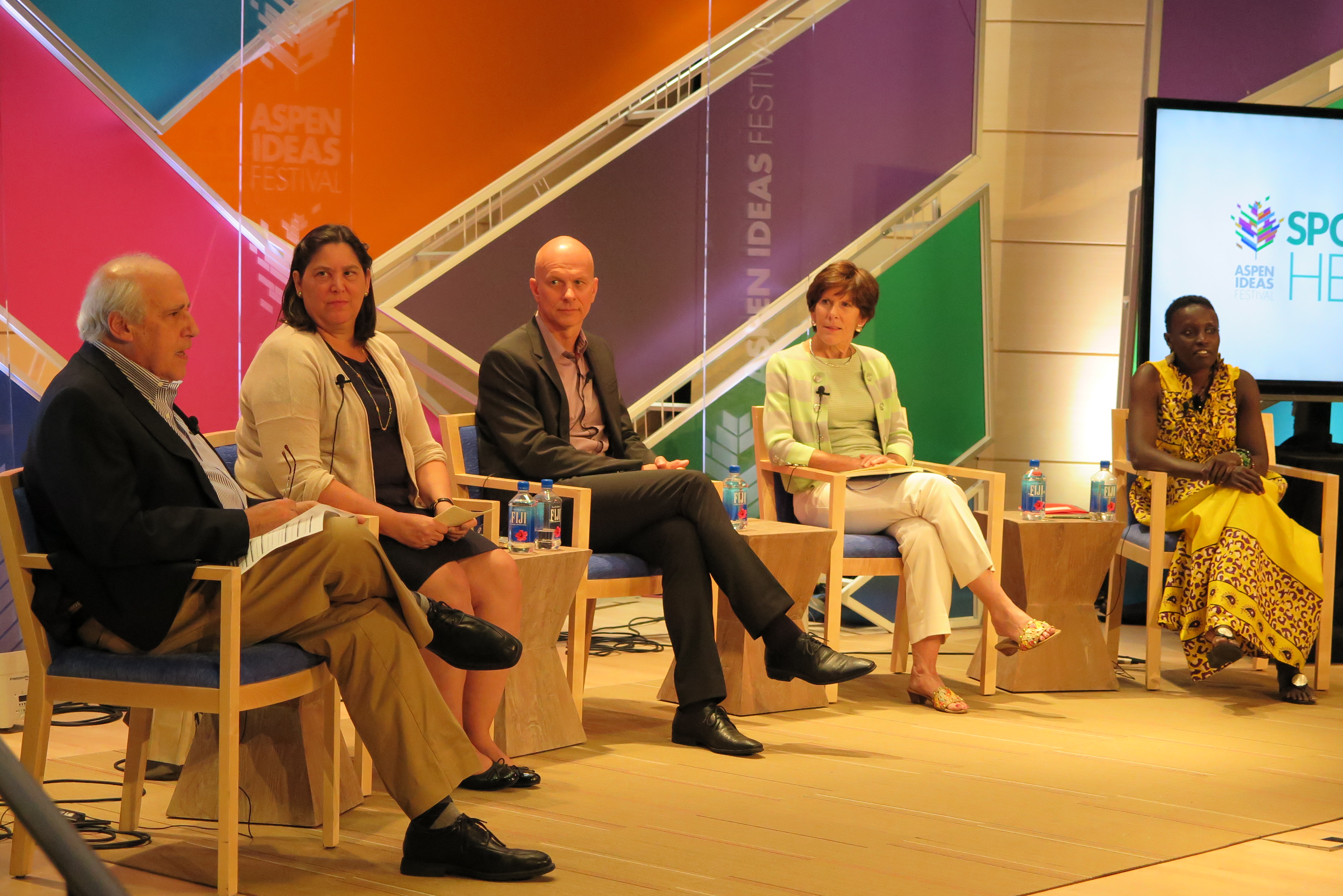 Panel called "Innovations in Food Security and Nutrition" at Spotlight Health Aspen Ideas Festival 2015. From left, Dan Glickman, Lucy Hurst, Jorg Spieldenner, Linda Fisher, Esther Ngumbi